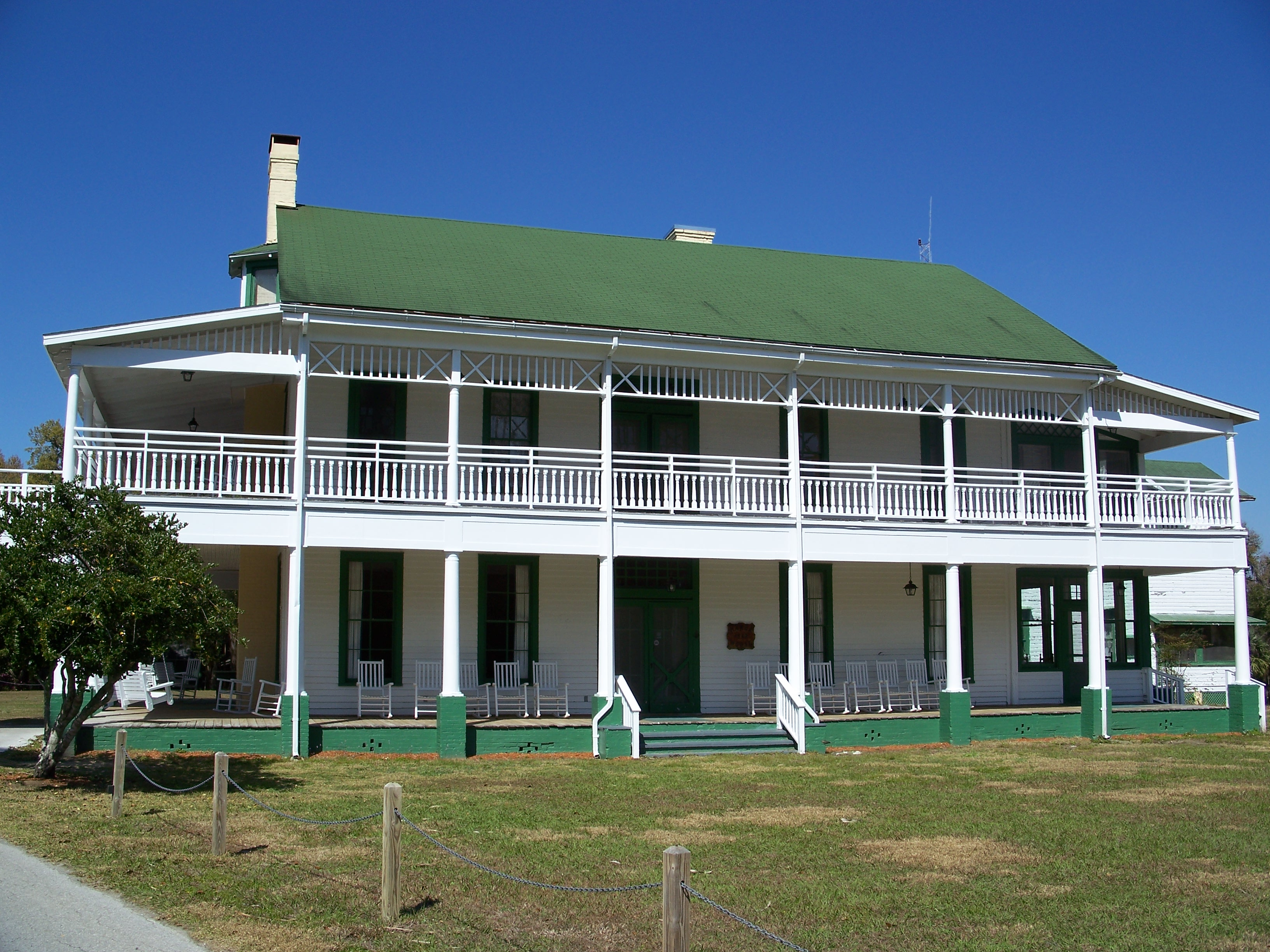 Chinsegut Hill Manor House, near Brooksville, Florida